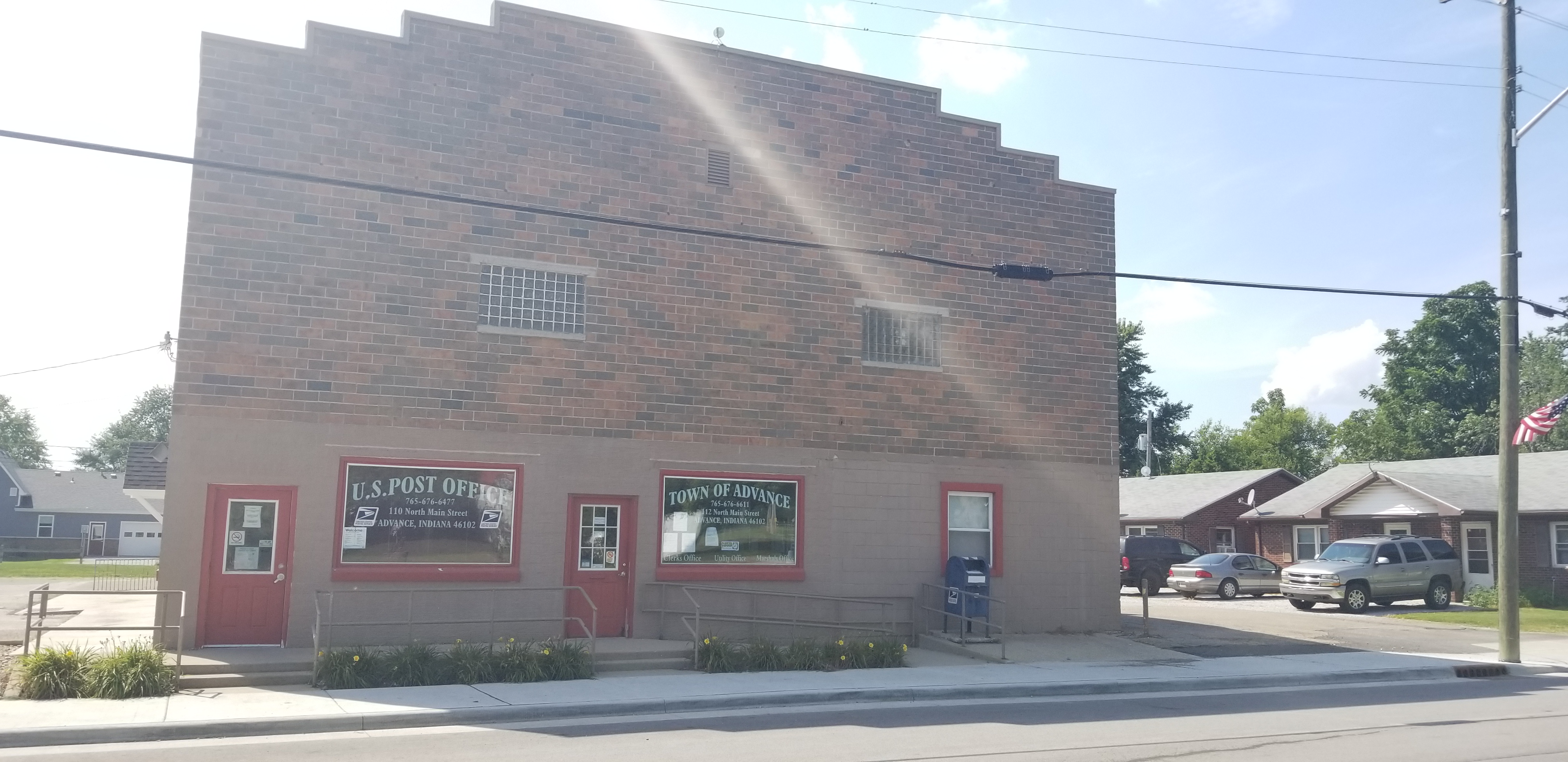 Advance, Indiana Post office and Municipal offices